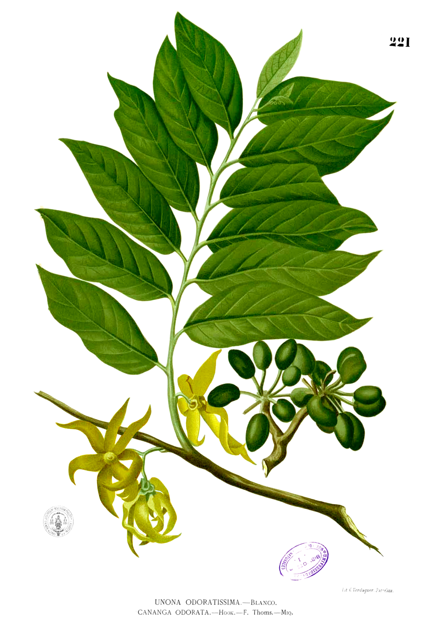 Plate from book